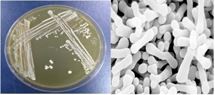 Food Science Example